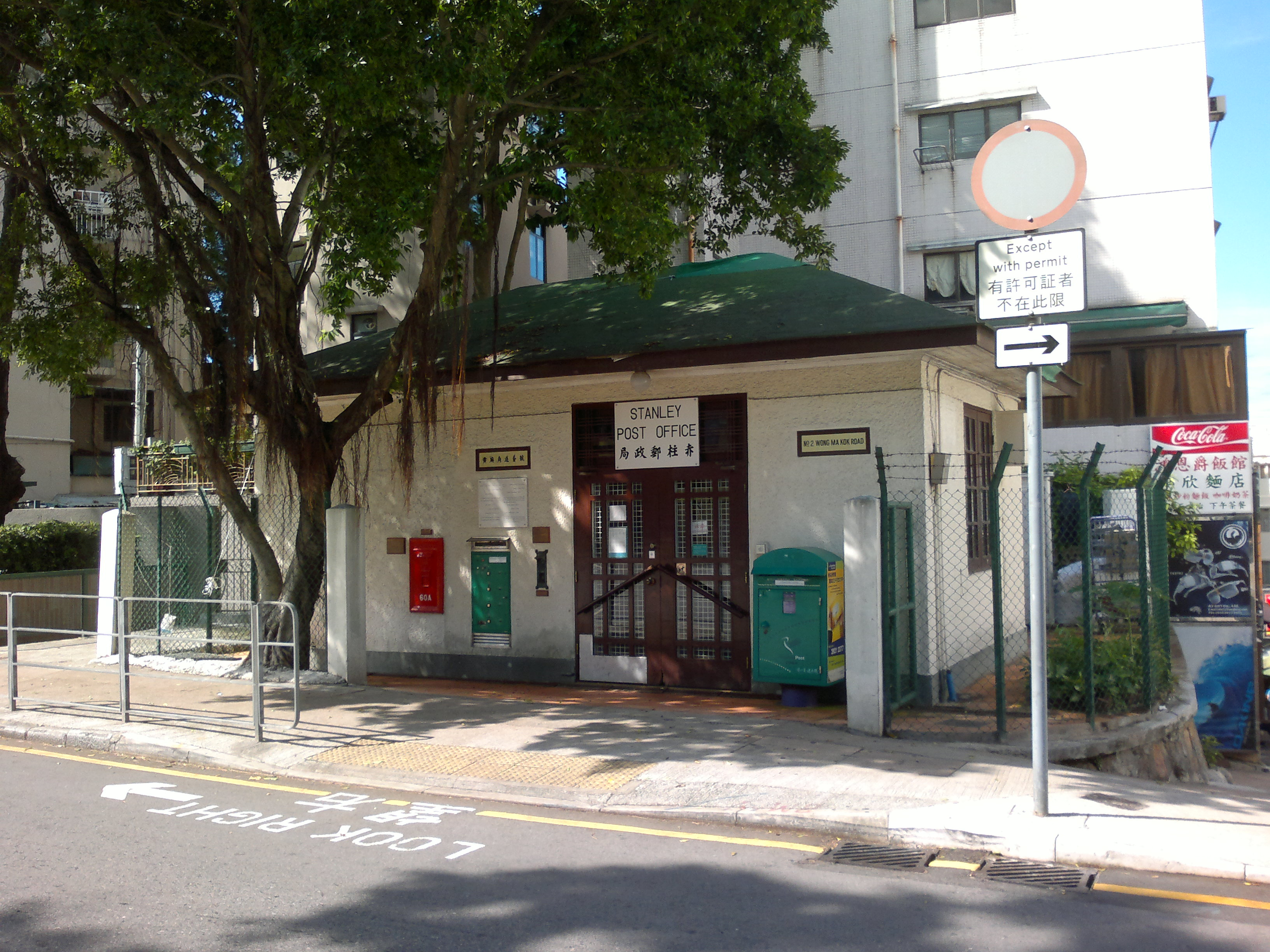 Stanley Post Office